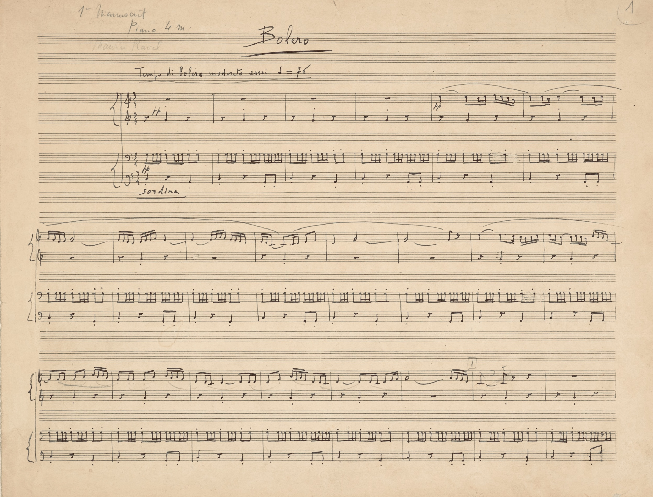 This manuscript was donated to the British Library by the heirs of Stefan Zweig (1881–1942) in 1986.